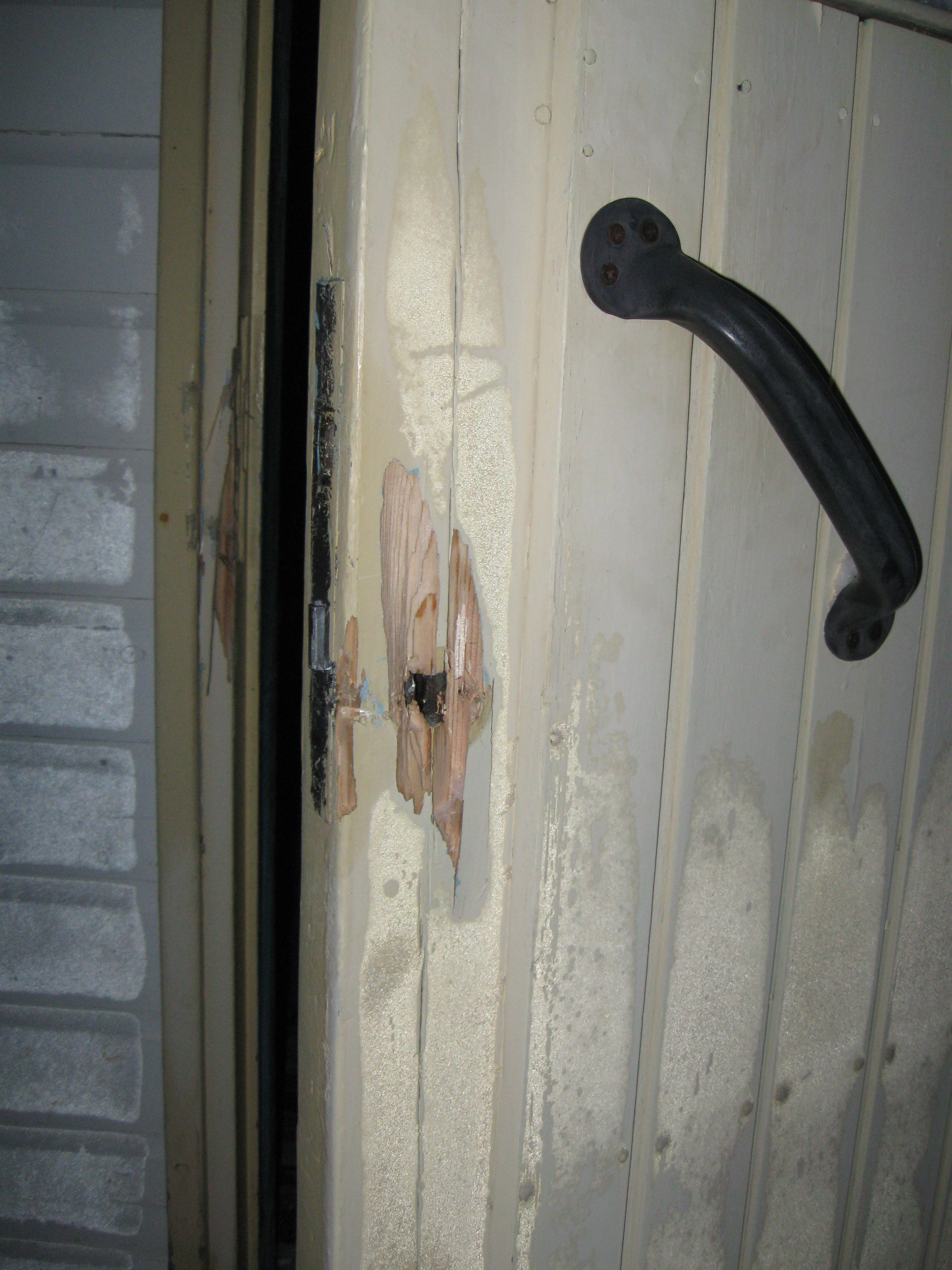 A door lock broken during an attempted burglary.